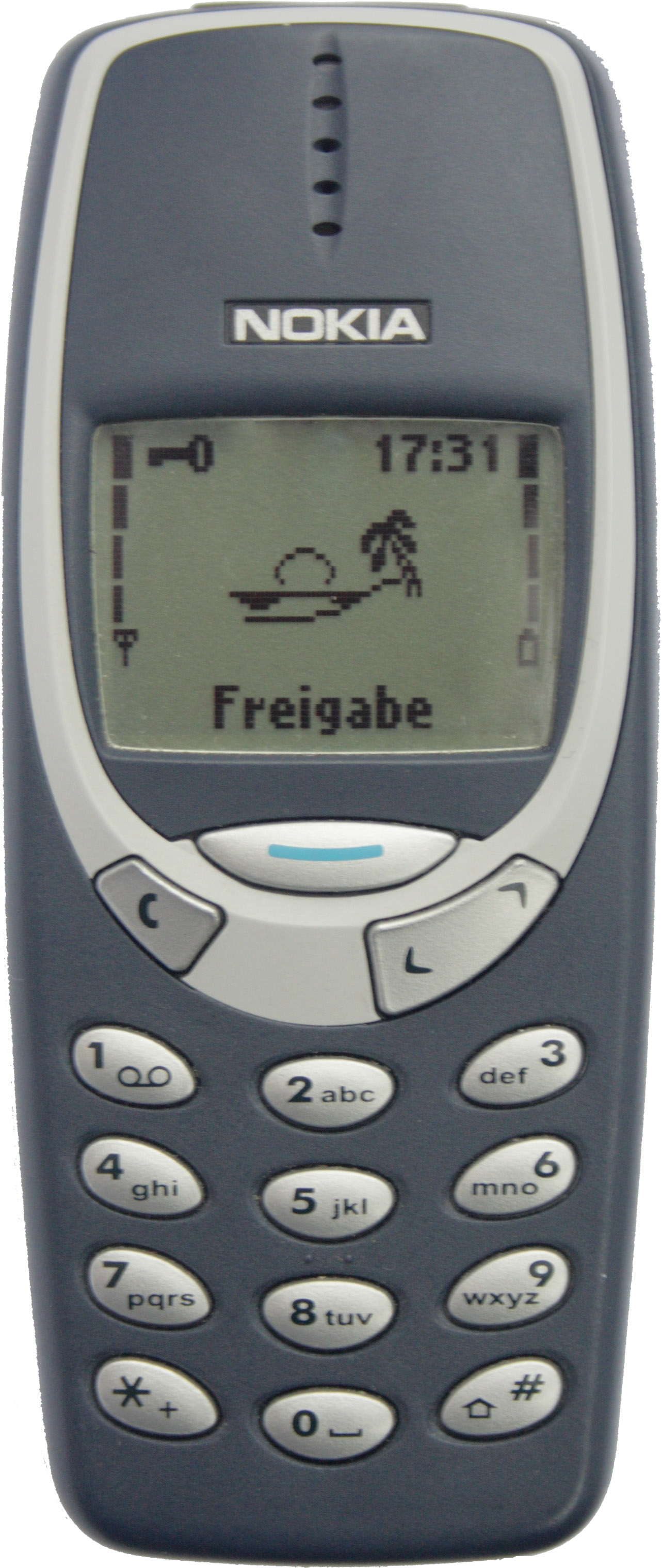 Blue version of the Nokia 3310 mobile phone with German menu.